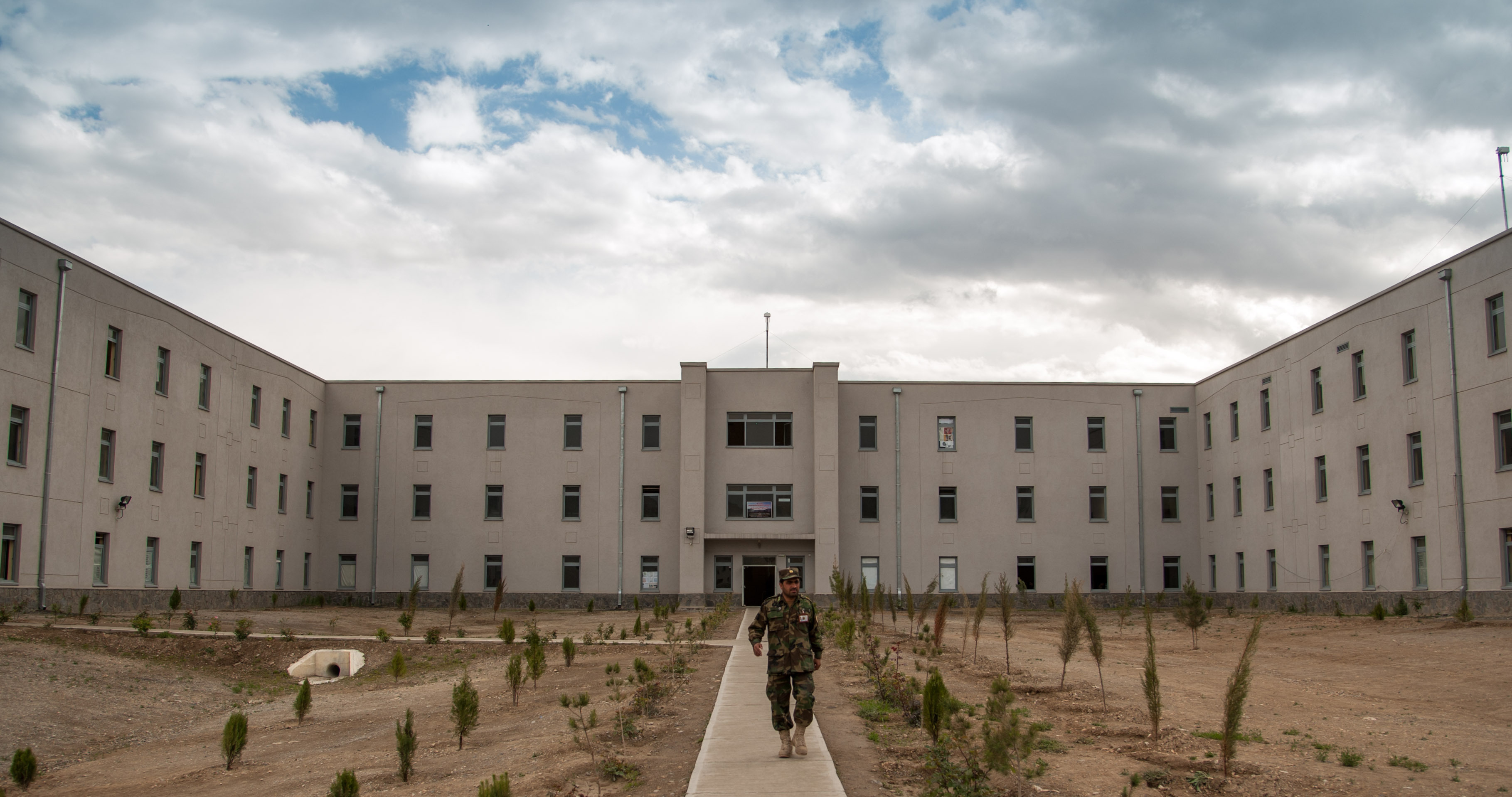 An Afghan National Defense University (ANDU) instructor exits an academic hall at the school in Kabul, Afghanistan, May 7, 2013. The ANDU trained future Afghan National Army officers.